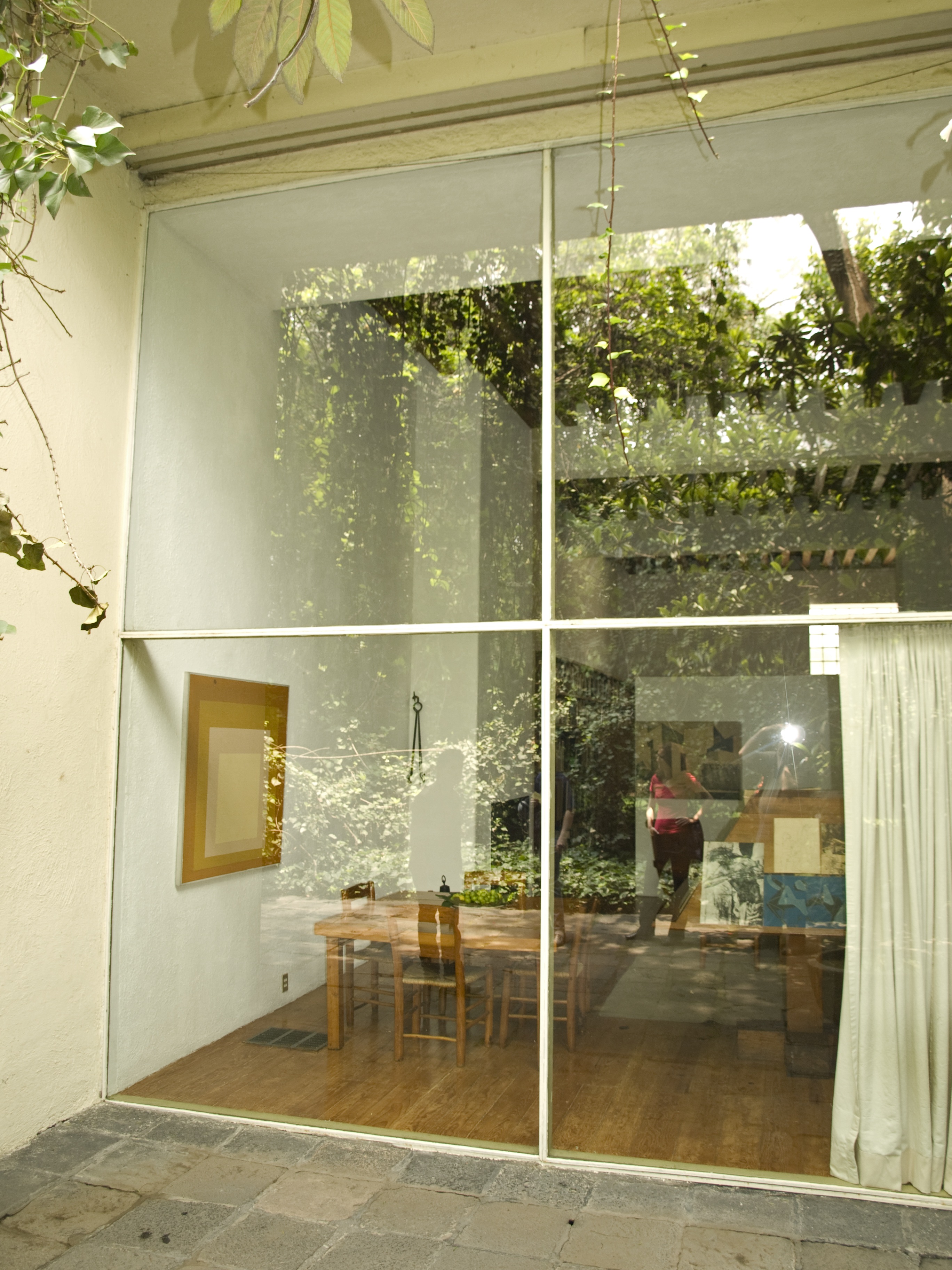 Luis Barragán House and Studio, the view from the garden